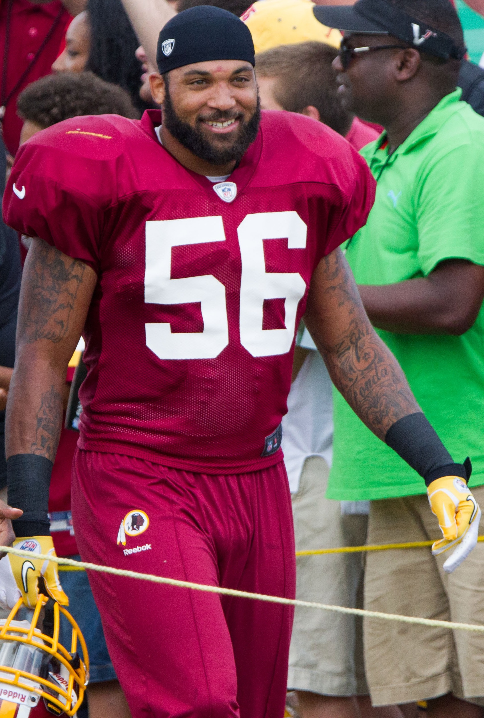 Perry Riley at Washington Redskins Training Camp July 31, 2012